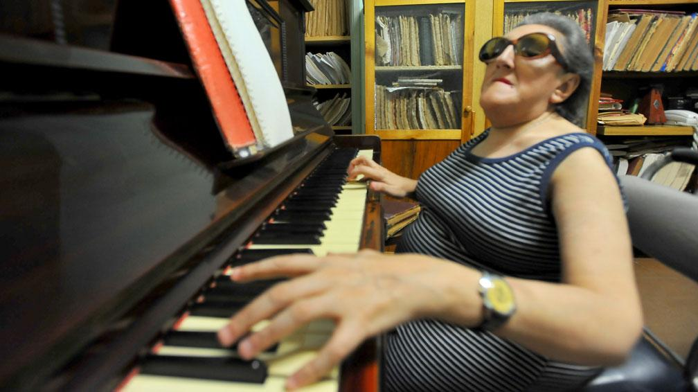 Elvira Playing the piano